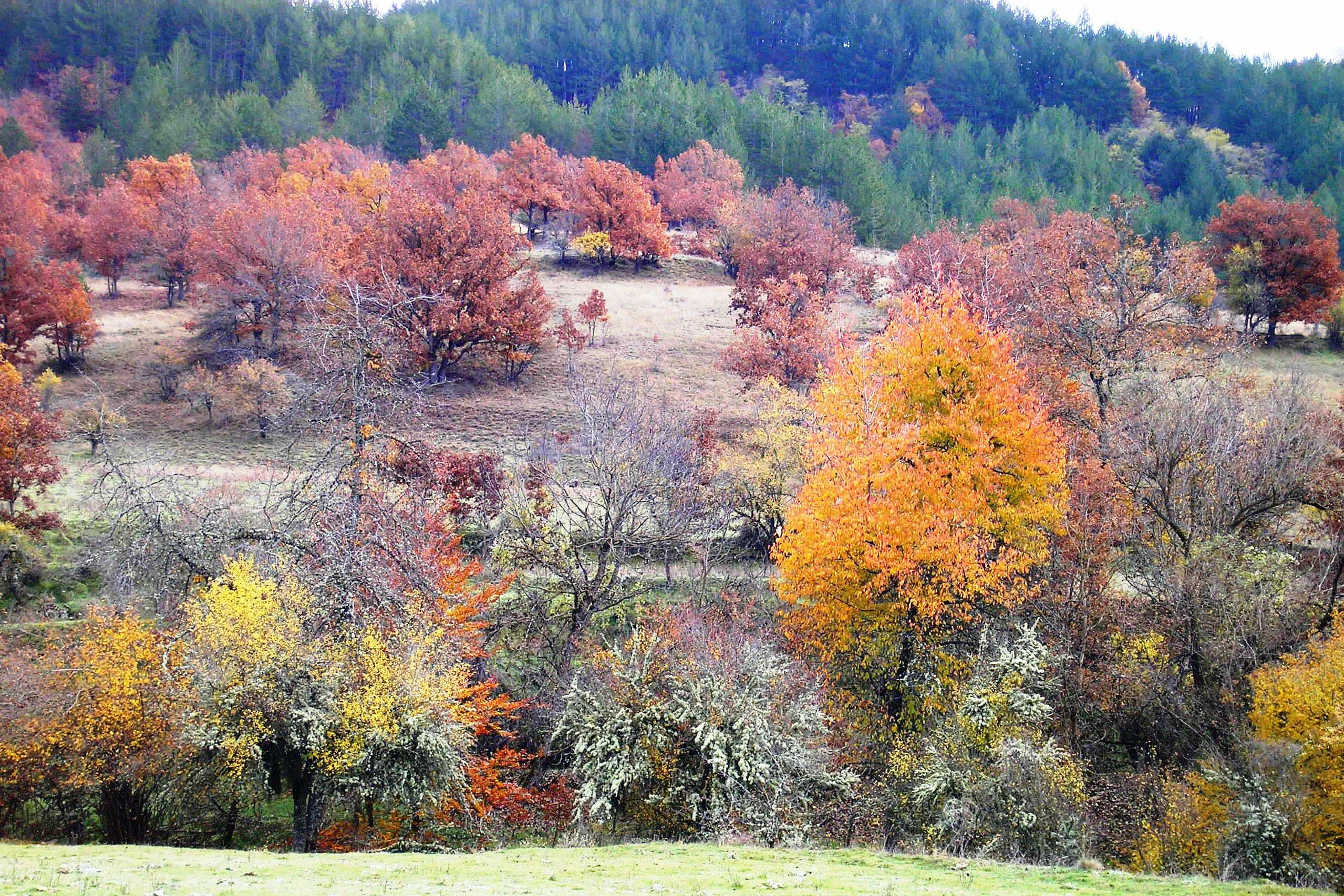 This is a photography of Natura 2000 protected area with ID GR1340001